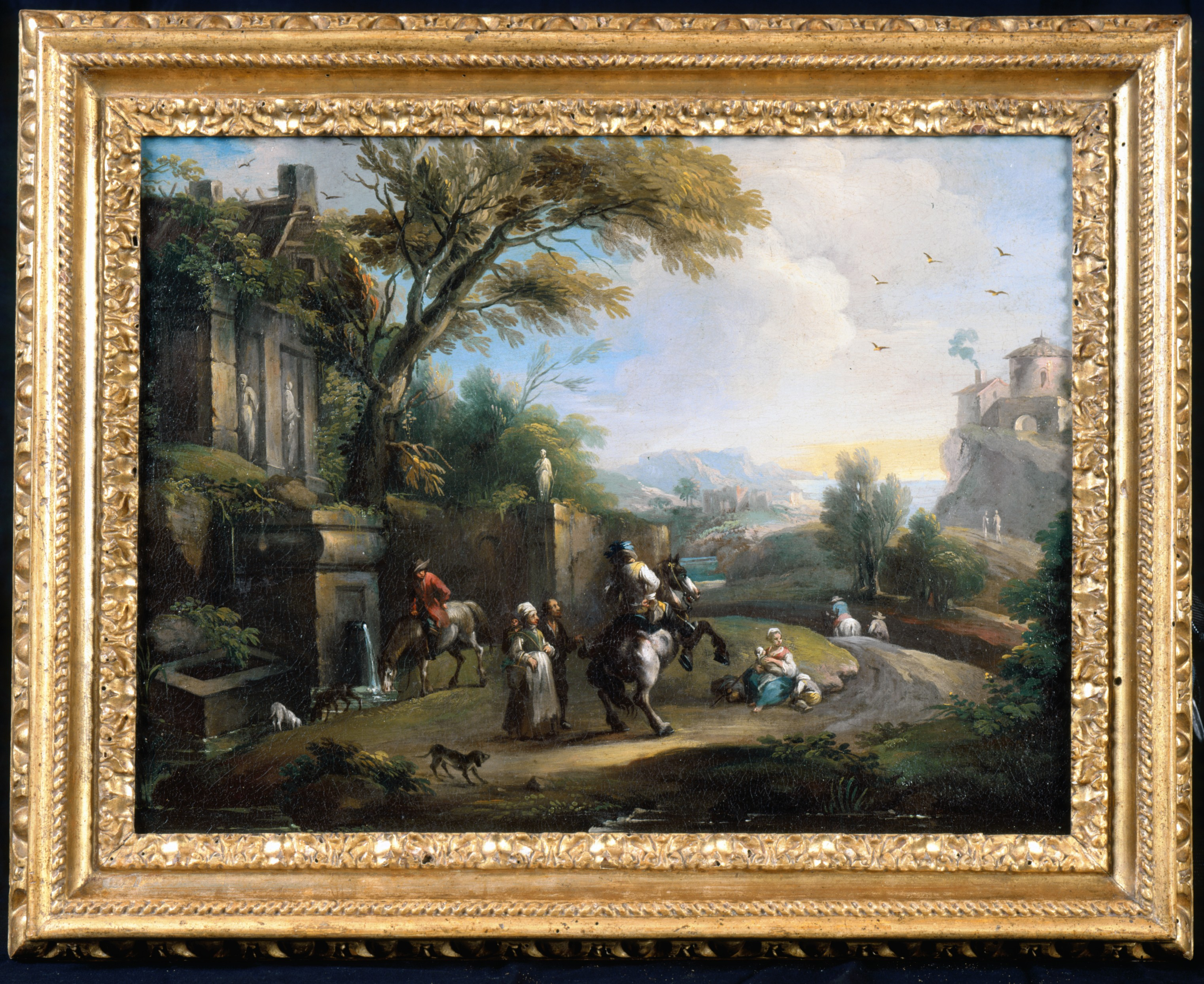 A landscape with people, horses and dogs